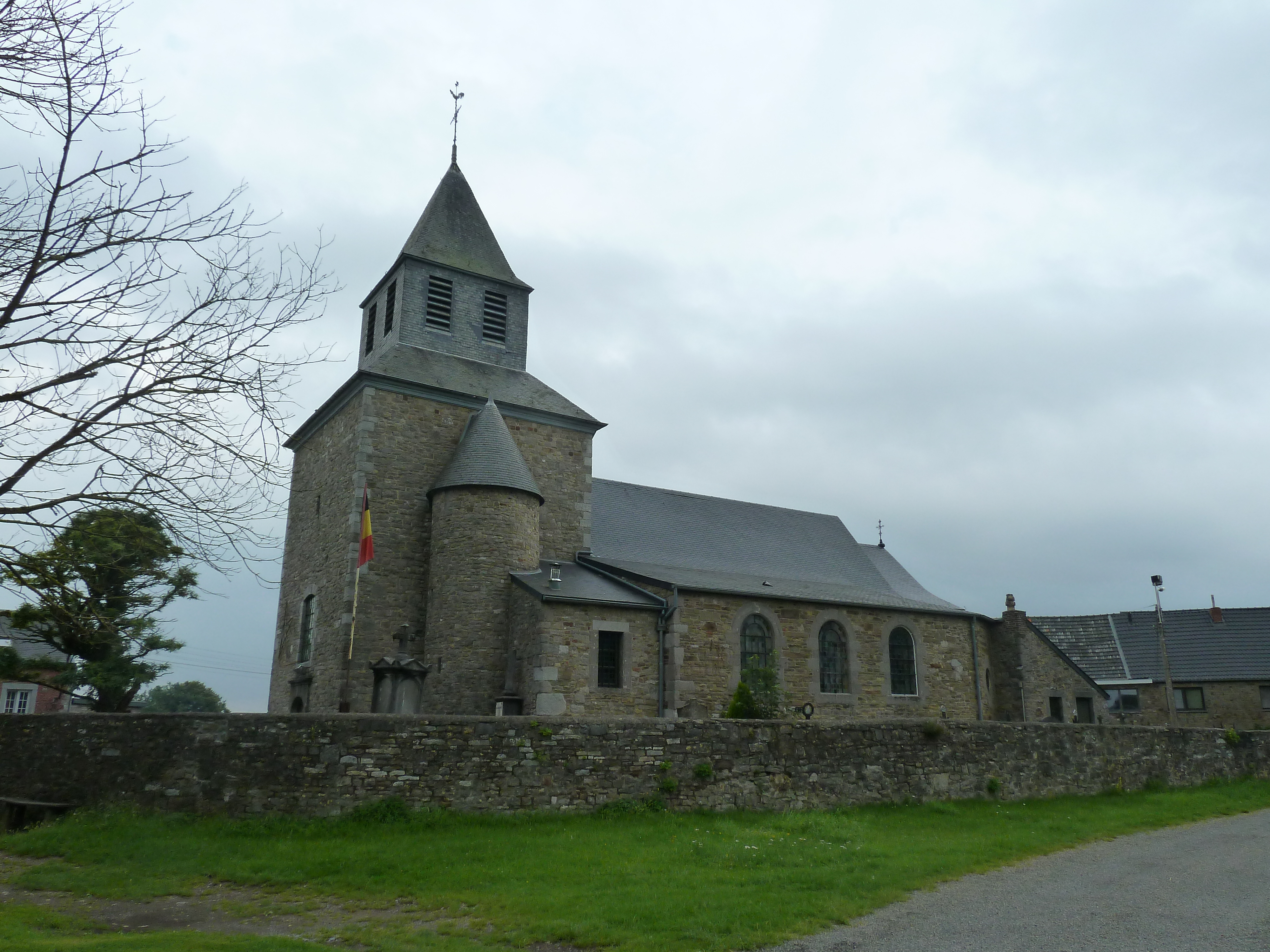 Church of Sainte-Catherine, Forêt, Trooz, Belgium